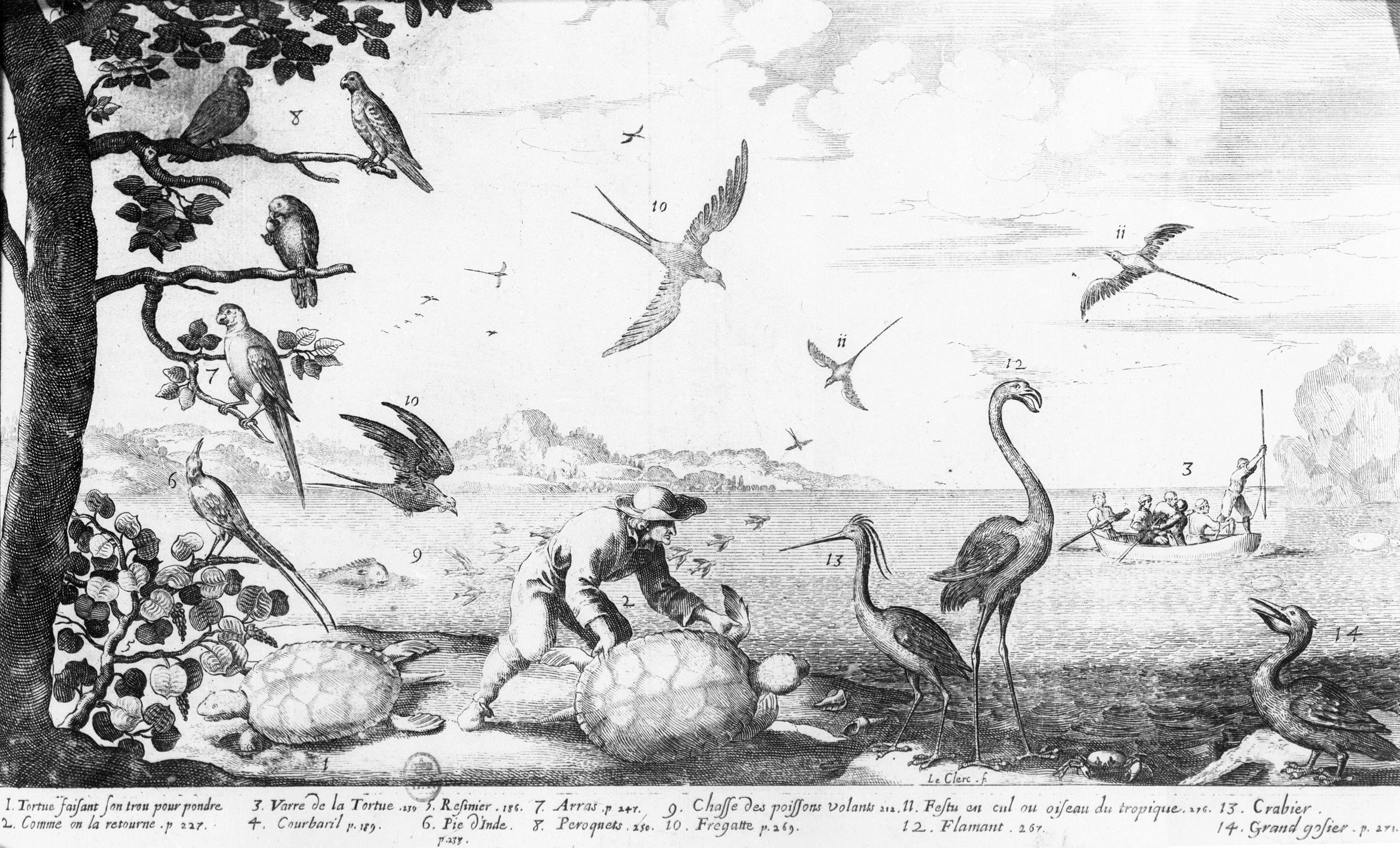 Animals on Guadeloupe. Artwork from 'Histoire generale des Antilles' by Jean Babtiste du Tertre from the year 1667